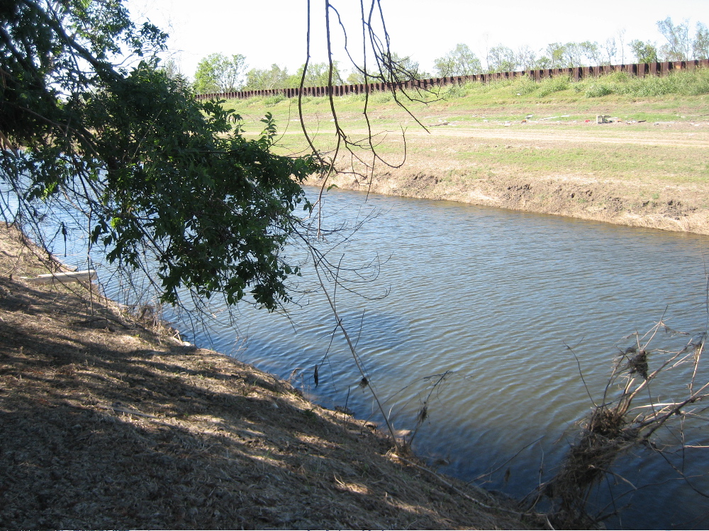 View of Florida Canal from around Arabi, Louisiana, from the River side, with the floodwall & levee on the inland side seen across the canal.